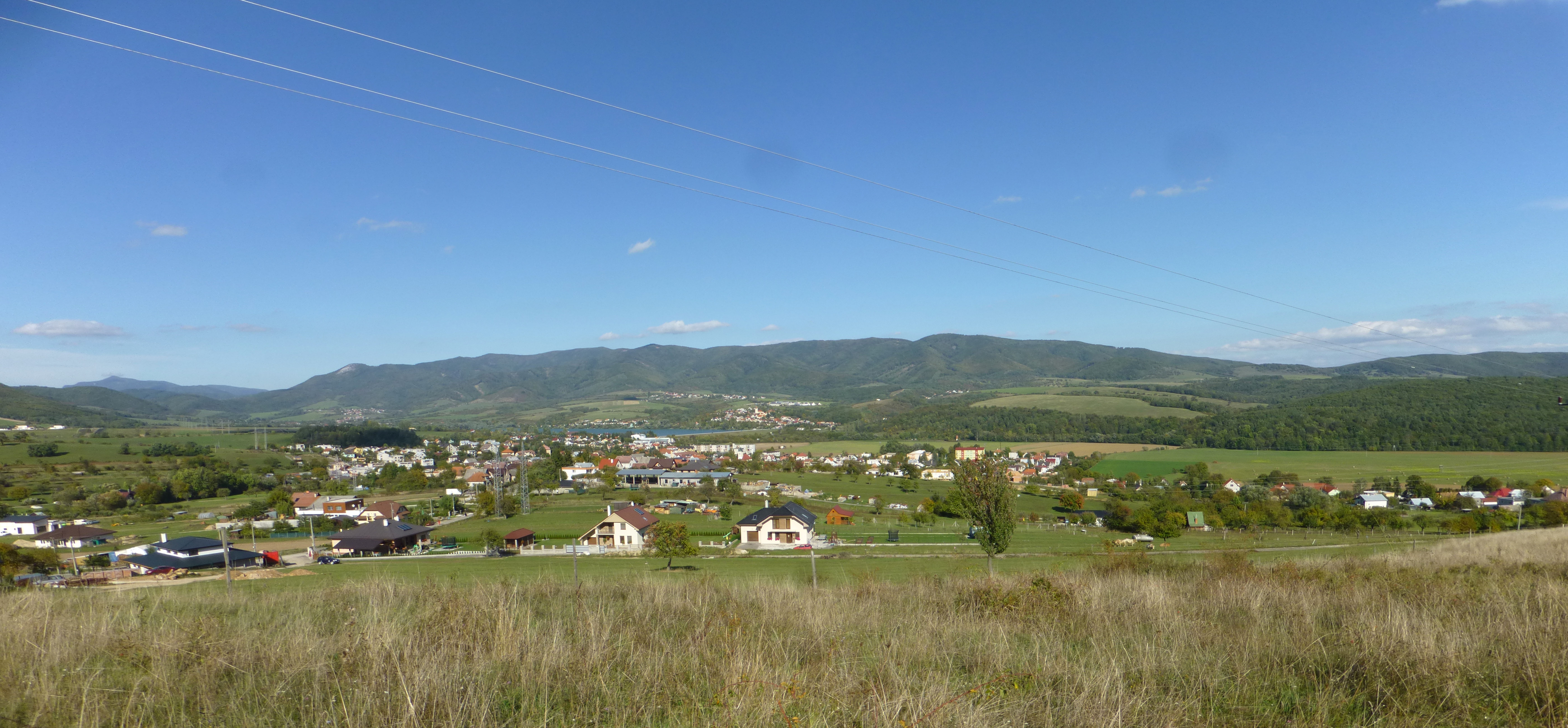 View of the Nitrianske Rudno (Prievidza District, Slovakia) from the southwest. October 2019. Village Kostolná Ves is in the background, east of the reservoir.